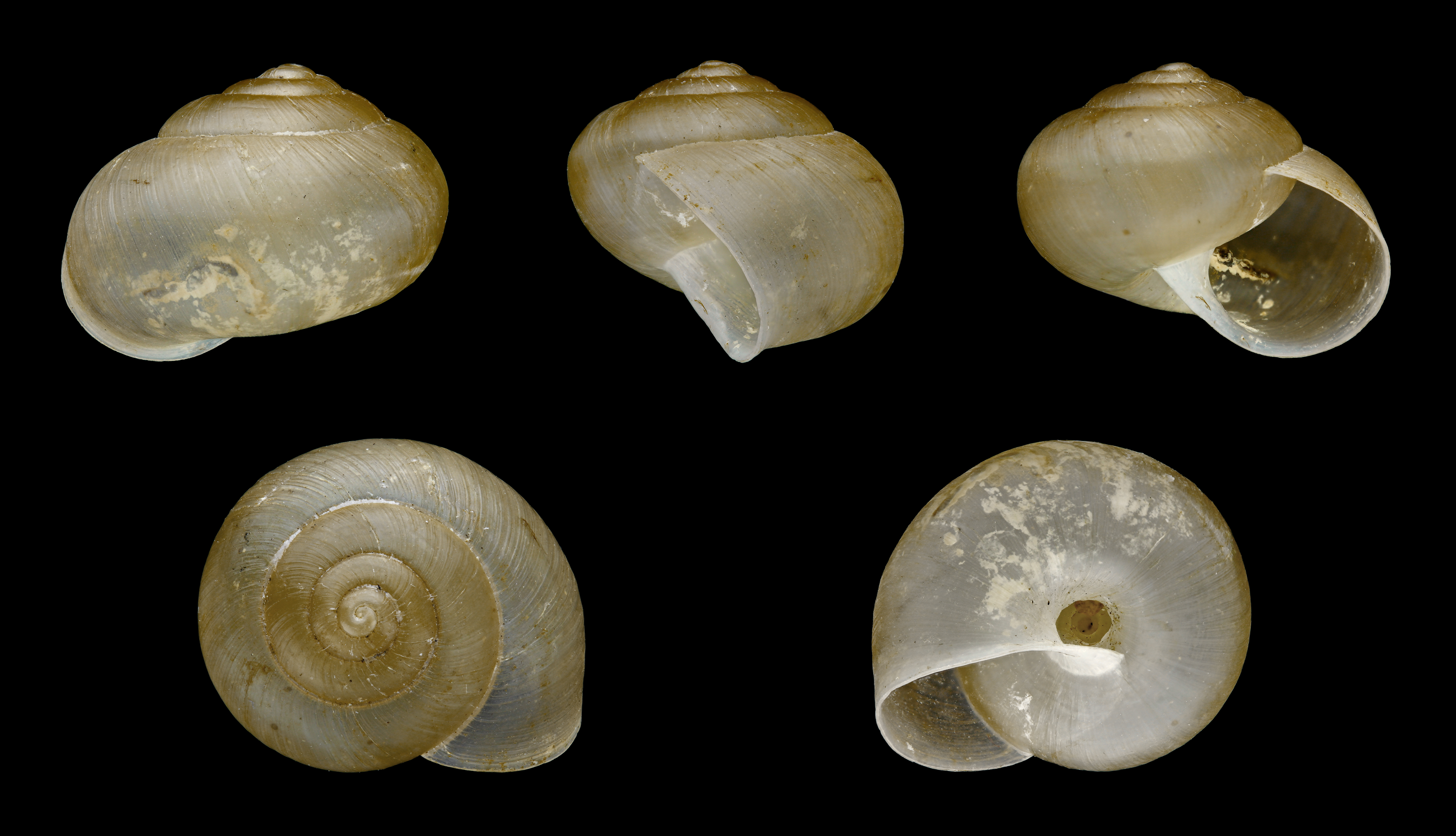 Asian Trampsnail; diameter 1.3 cm; Originating from Bohol, Philippines; Shell of own collection, therefore not geocoded. Dorsal, lateral (right side), ventral, back, and front view.